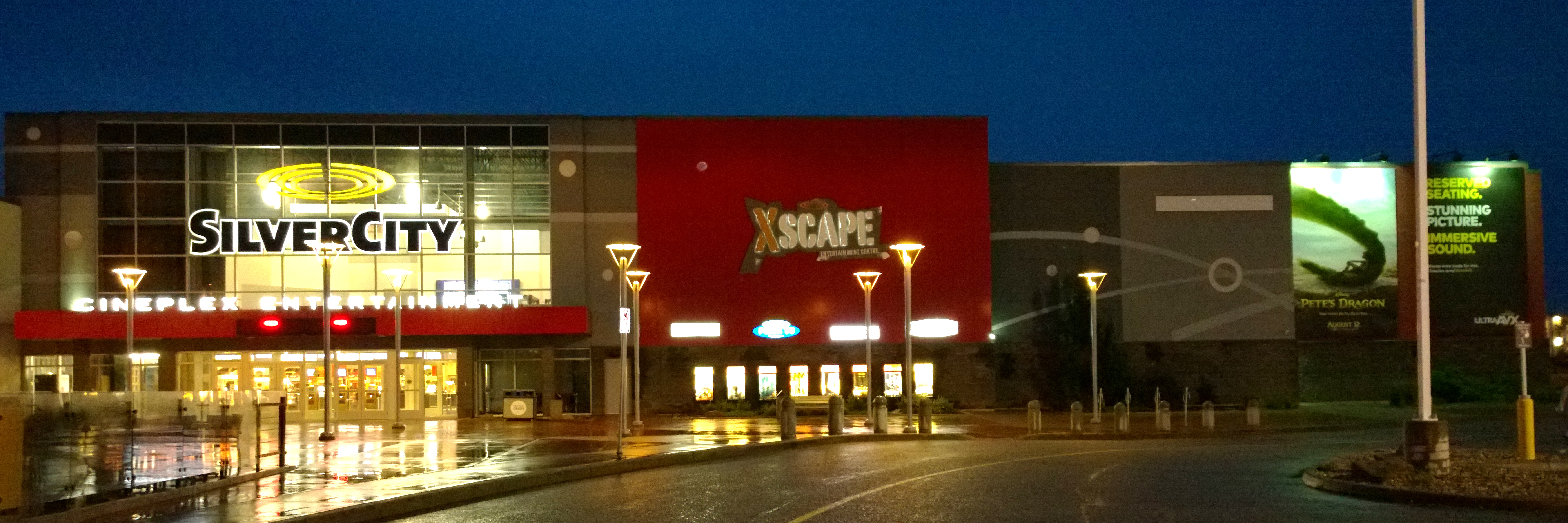 The final SilverCity to open, the CrossIron Mills location.